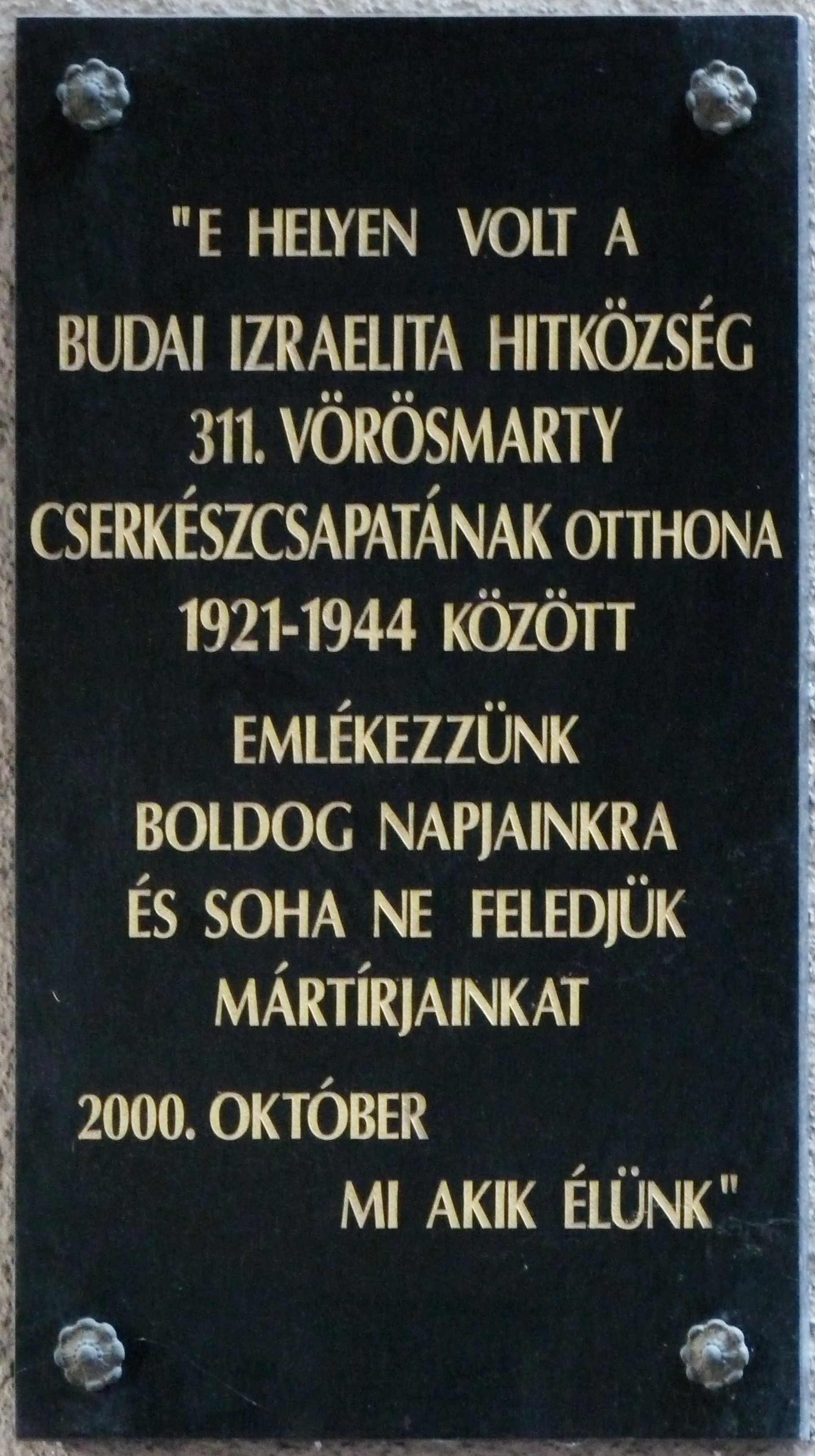 Plaque commemorating the 311st "Vörösmarty" Scout group sponsored by the Israelite Community of Buda. It is affixed to the common gateway of the dwelling-house and the synagogue of the street Leó Frankel where there was the home of the group between 1921 and 1944. (In reality from 1924.) (Budapest, District II, Frankel Leó Street Nr 49)